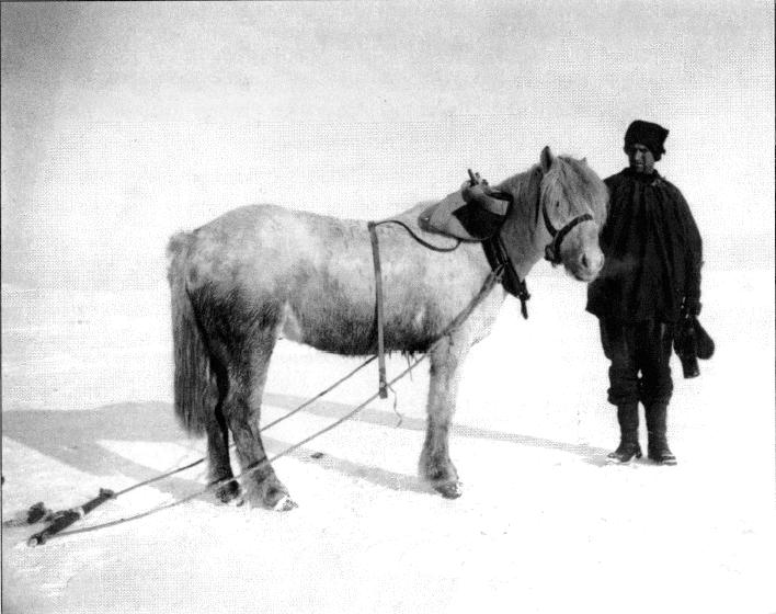 Tom Crean and the pony "Bones", just before his 400 mile march across the Great Ice Barrier.